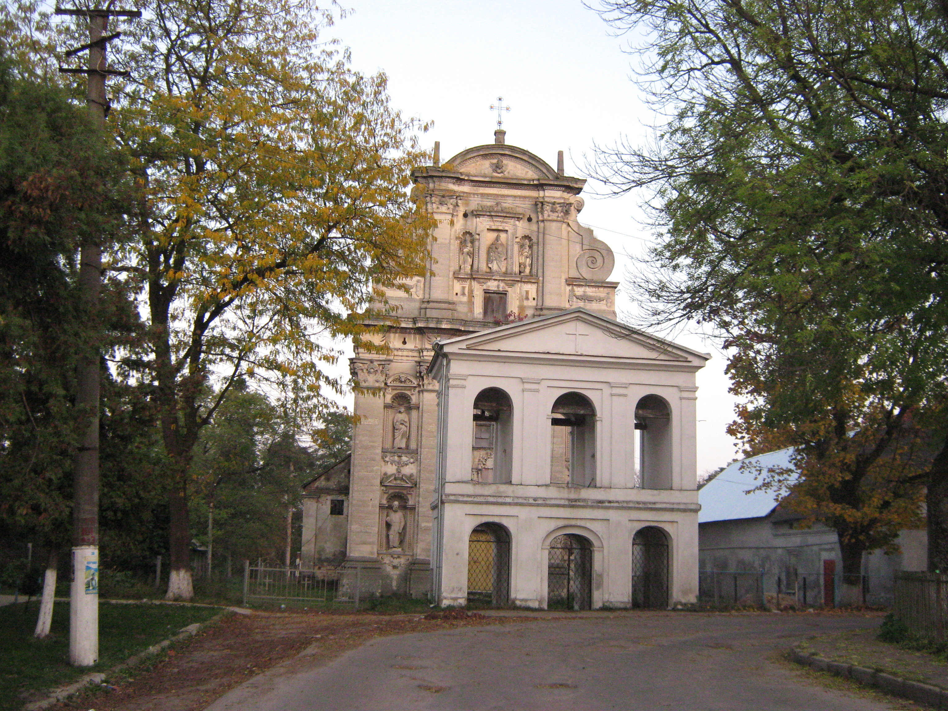 Church of the Nativity of the Virgin Mary in Komarno, Lviv Oblast, Ukraine (1656)